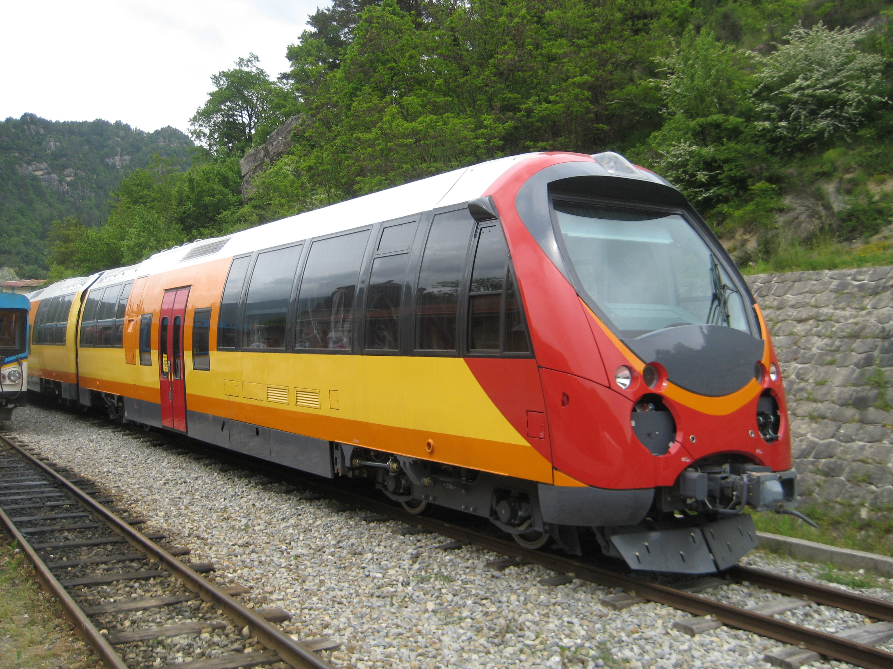 DMU-trainset AMP 800 of the Chemin de fer de Provence (CP) at Annot (may 2010).